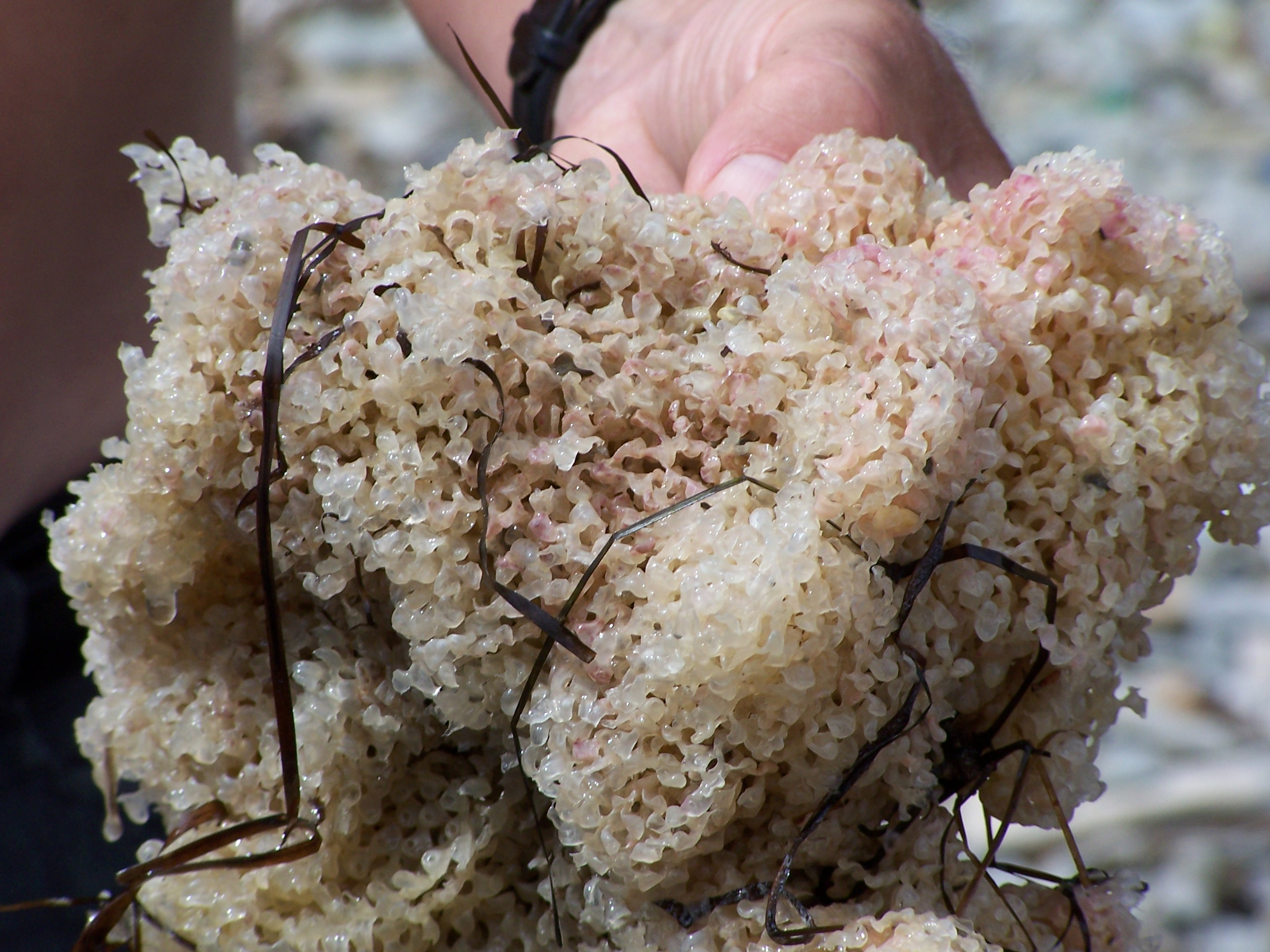 Eggs from the snail Murex